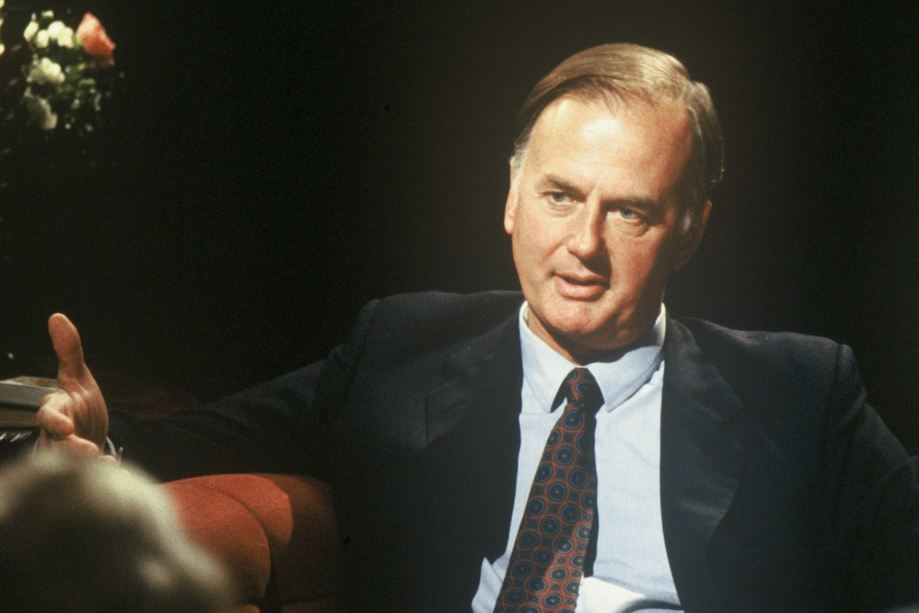 Alastair Morton appearing on After Dark on 10 June 1989. Other guests included Peter Ustinov, Kenneth Minogue, Shirley Williams, Richard Perle, Josef Joffe and Edward Heath. More here.